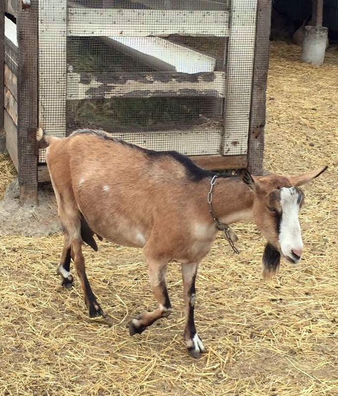 An American Alpine goat doe at a farmstead dairy.